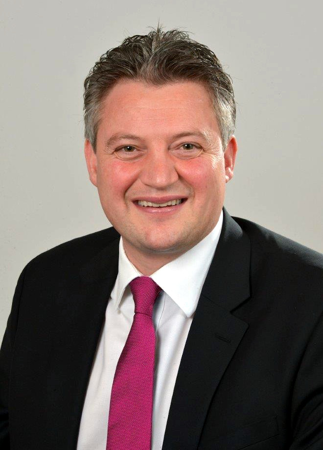 Konrad Mizzi's Official Photo